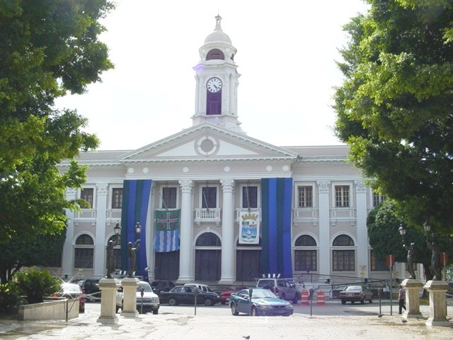 I personally took this picture(!)